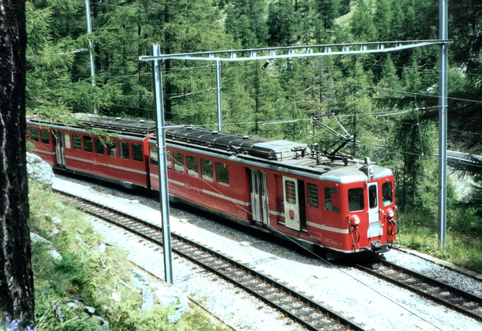 EMU ABDeh 8/8 No. 2043 at Kalter Boden passing loop near Zermatt.